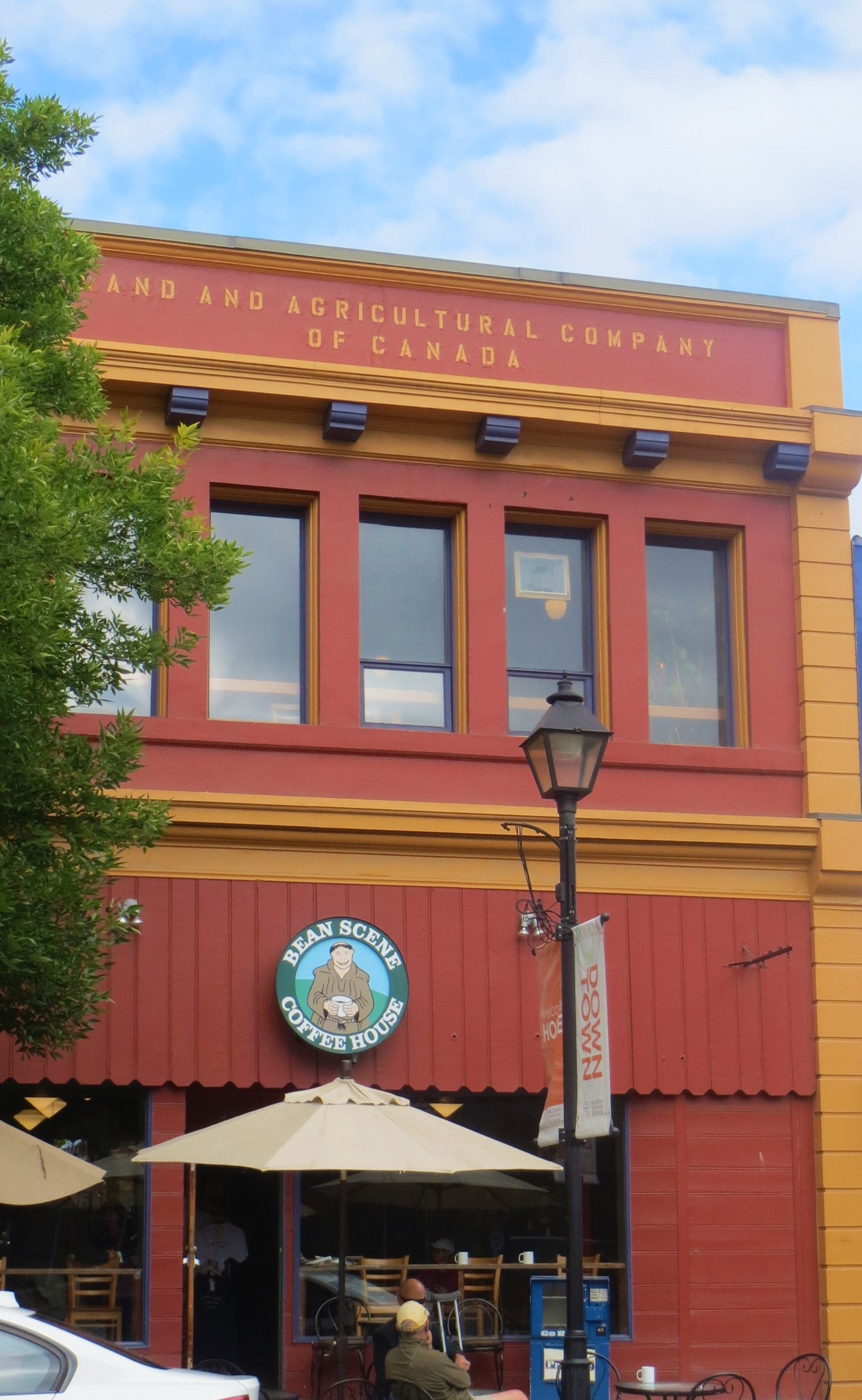 Land and Agricultural Company Building